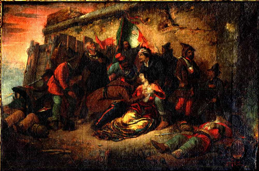 Dead of Colomba Antonietti, patriot, in Rome 1849